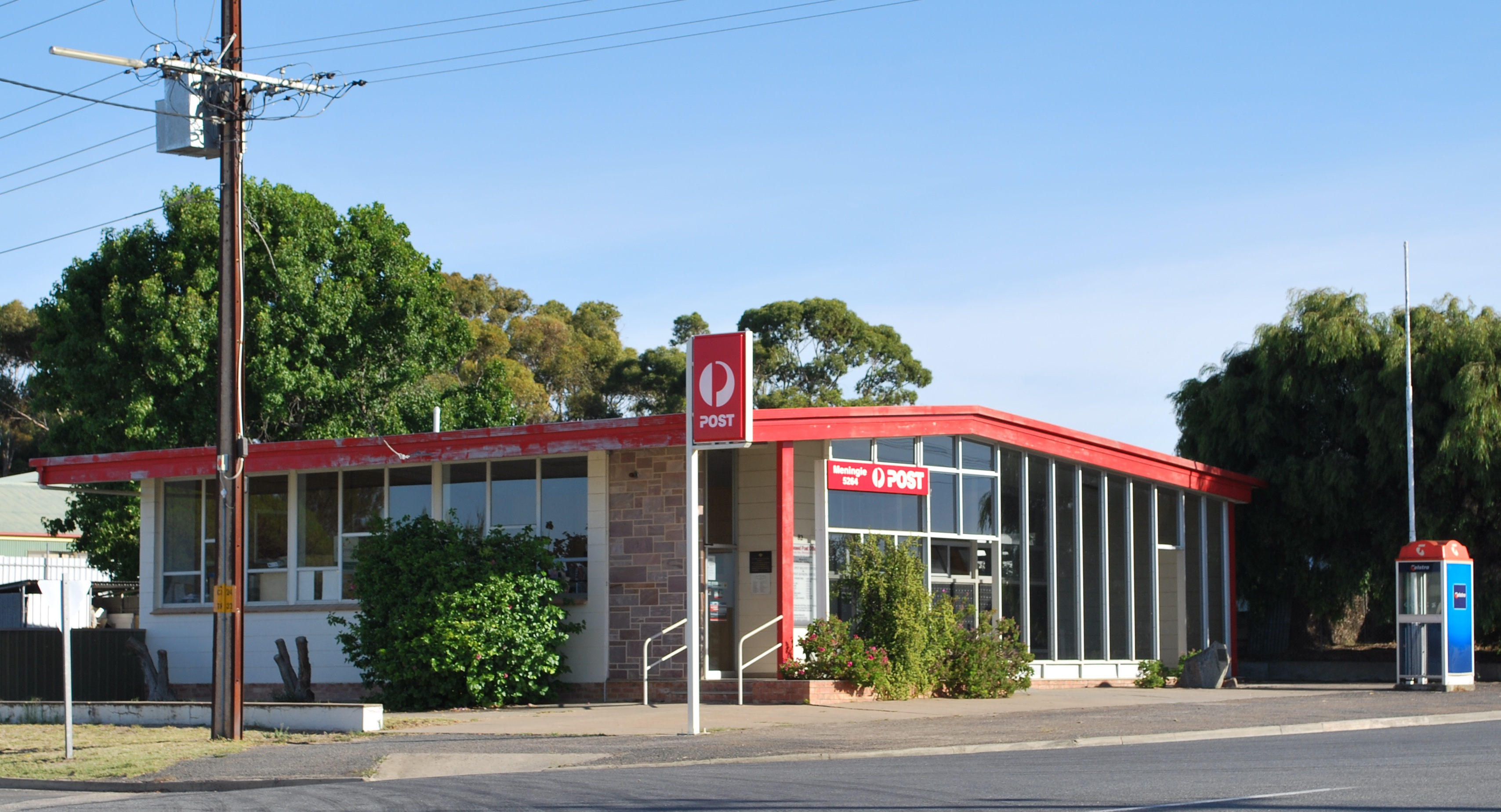 Post office at Meningie, South Australia